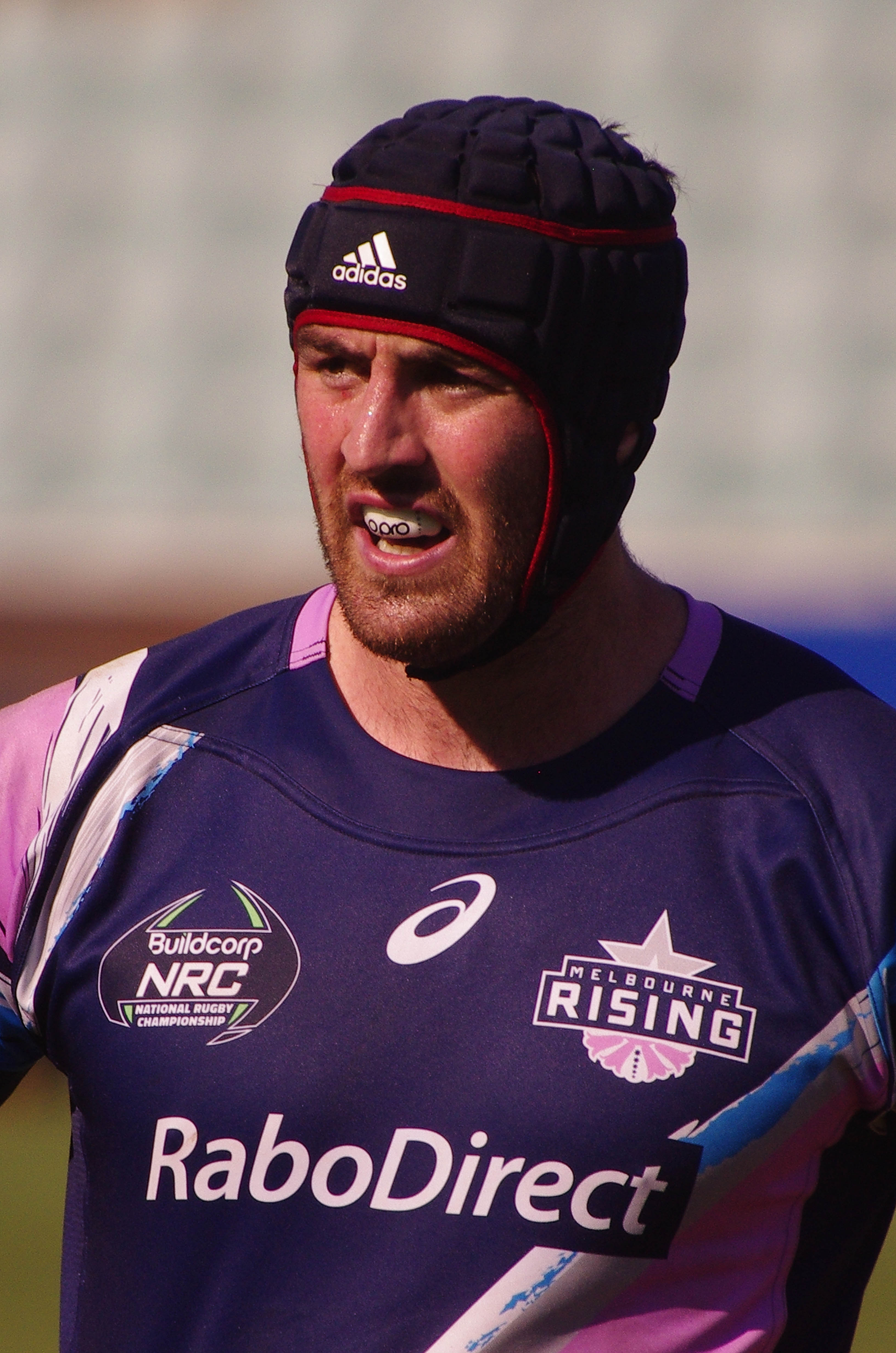 Cadeyrn Neville in 2014